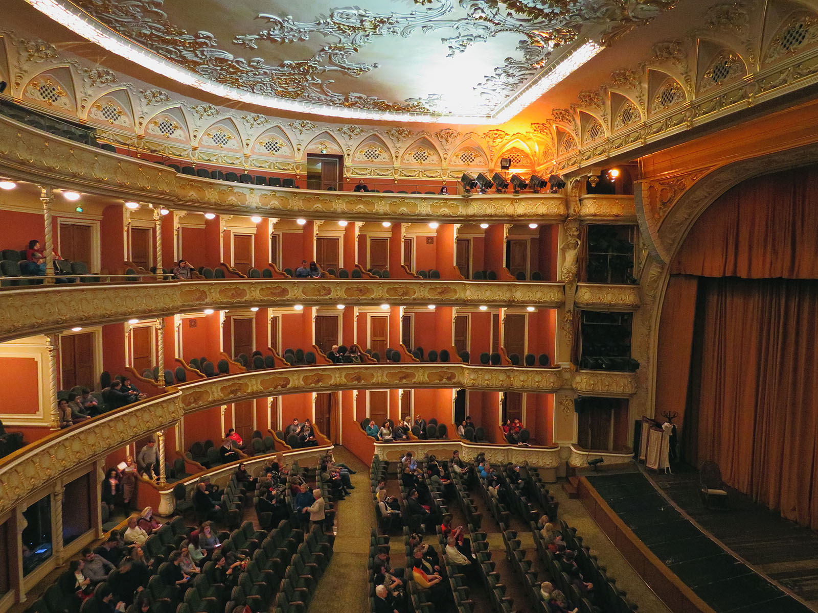 The interior of Ivan Franko National Academic Drama Theatre, Kiev, Ukraine